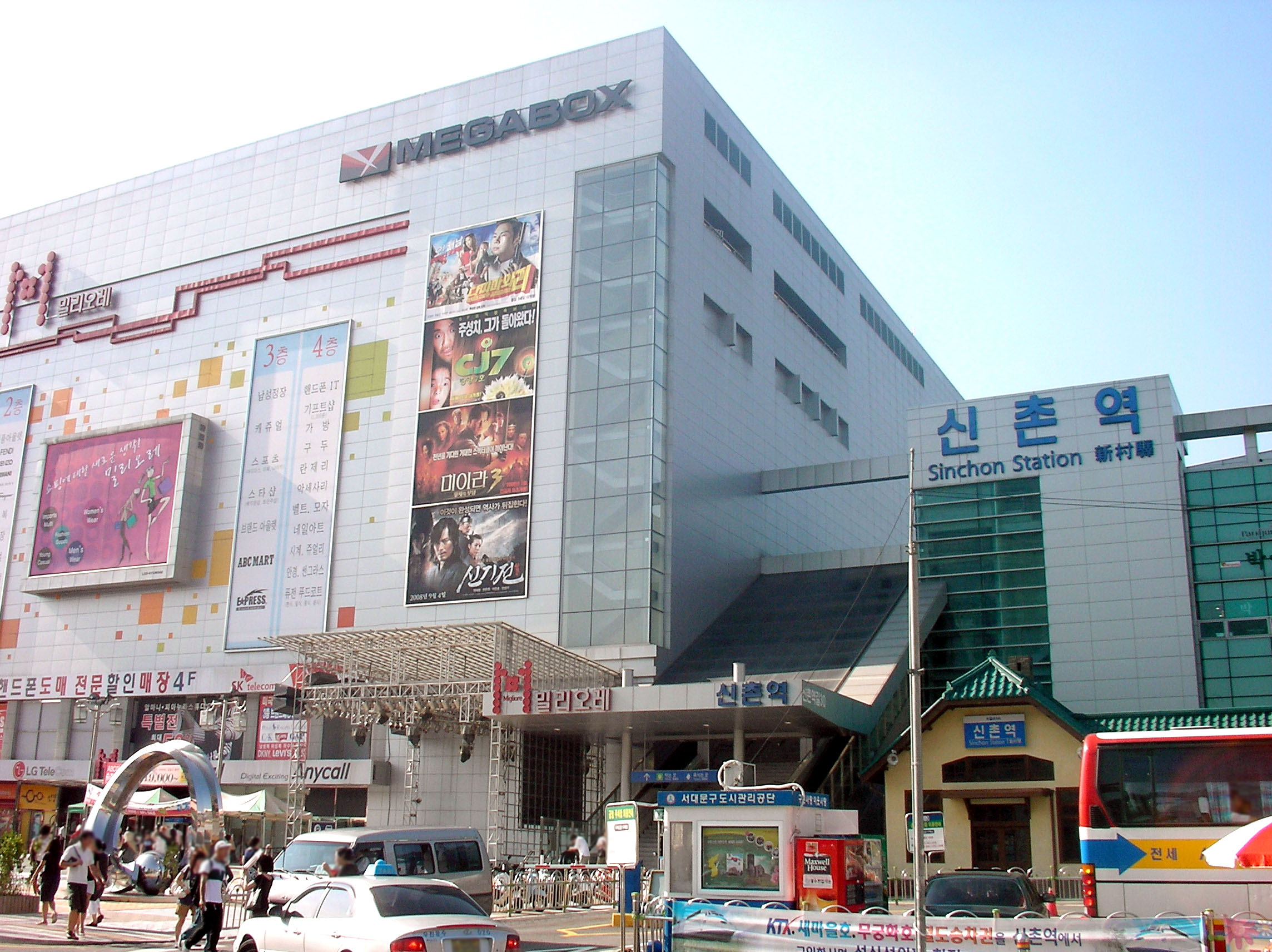 Sinchon Station (Gyeongui Line) (신촌역 (경의선))